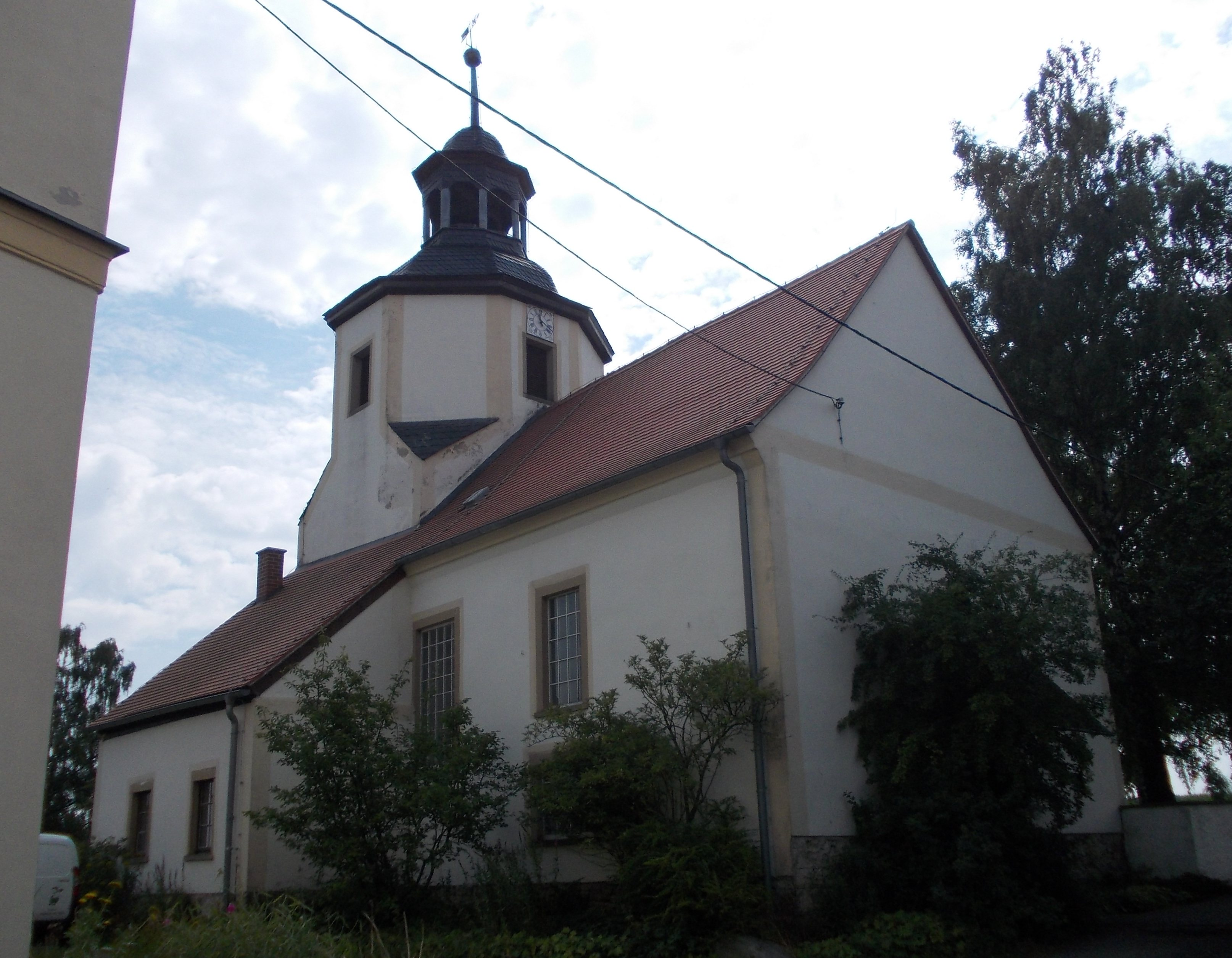 Hohenkirchen church (Schnaudertal, district: Burgenlandkreis, Saxony-Anhalt)